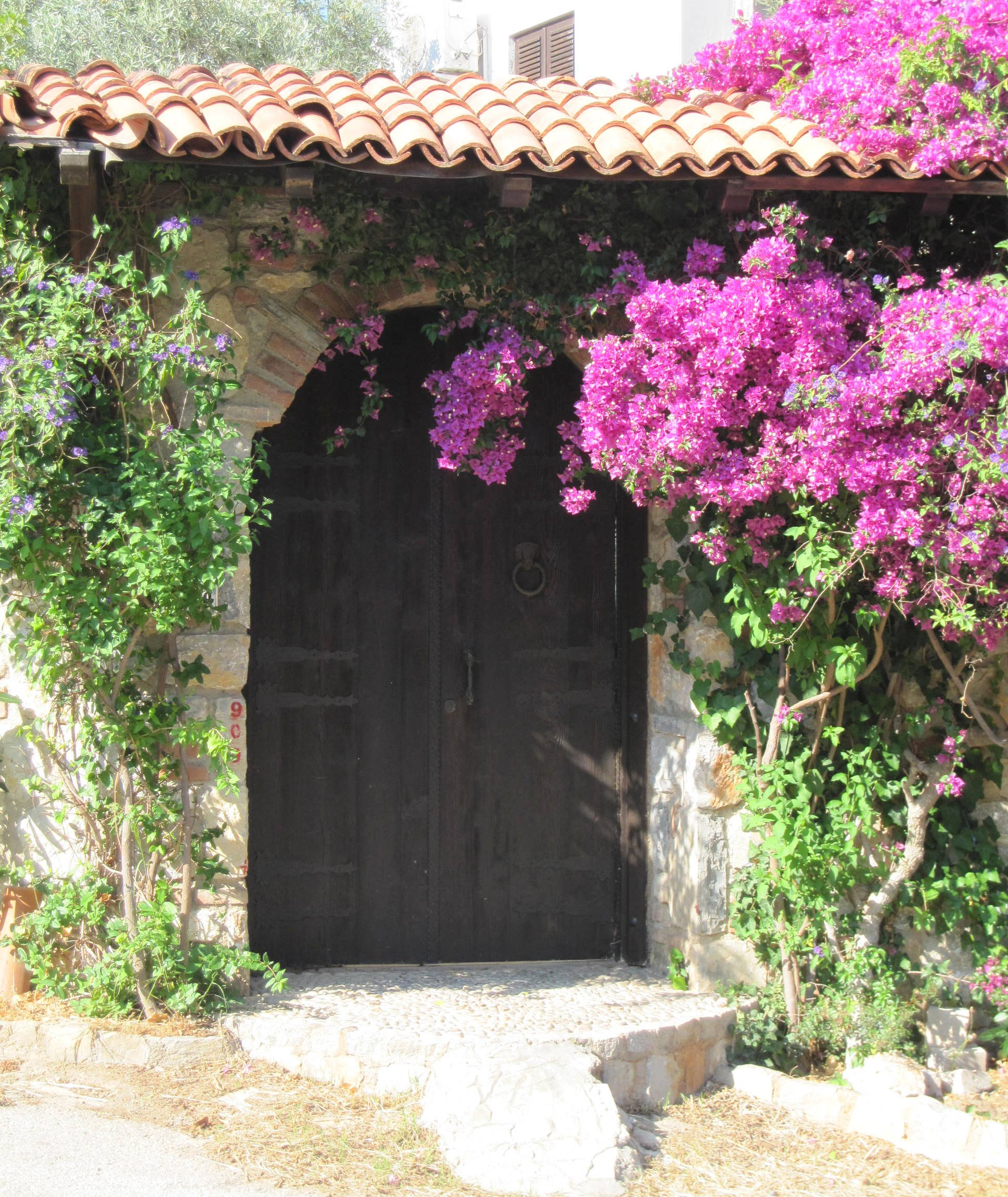 gate with flowers